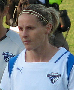 smith of the breakers